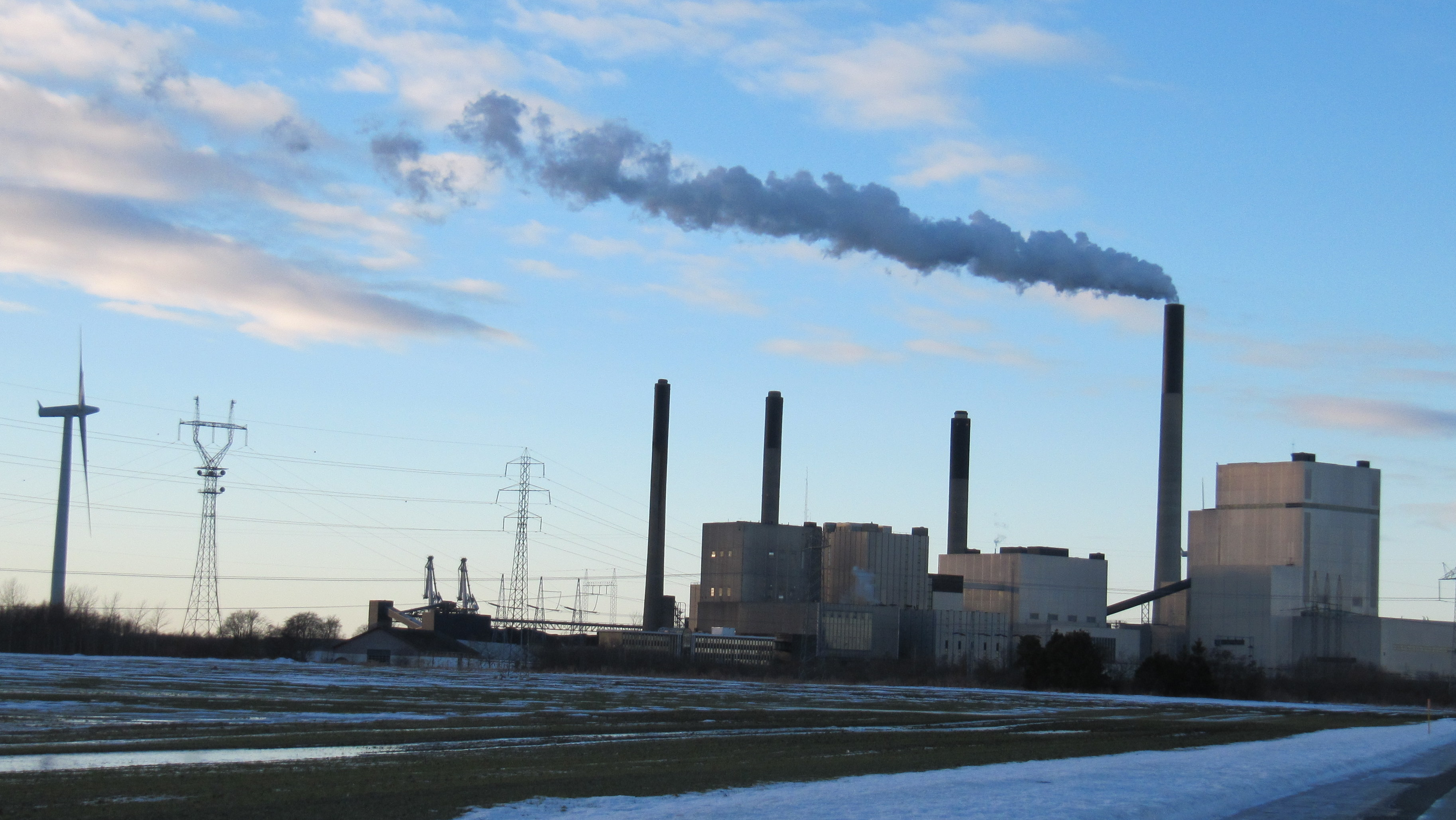 Nordjylland Power Station near Vester Hassing and Stae; wind turbine and Limfjord power line crossing pylon on the left (part of the northern crossing, 400 kV)